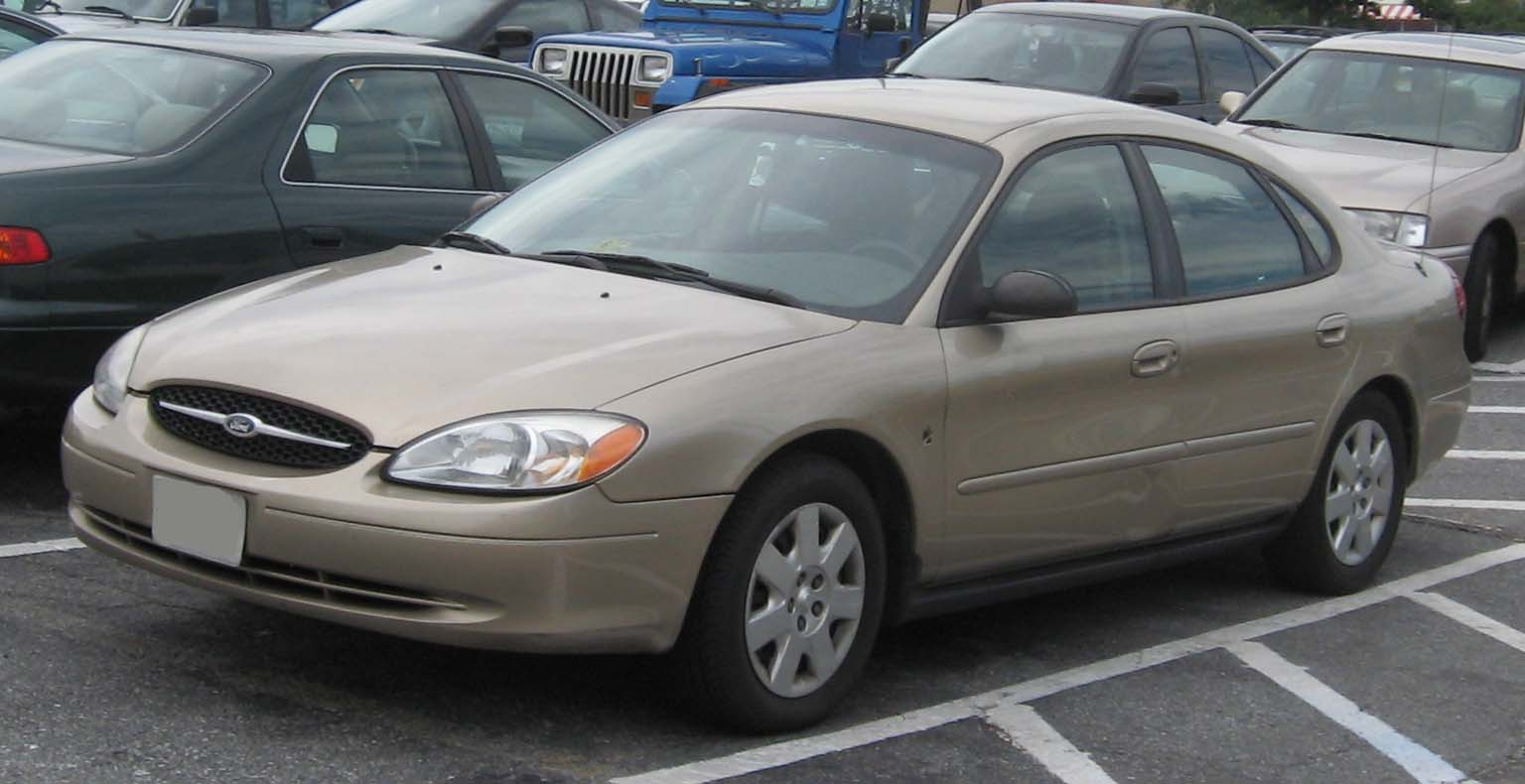 2000-2003 Ford Taurus photographed in College Park, Maryland, USA.